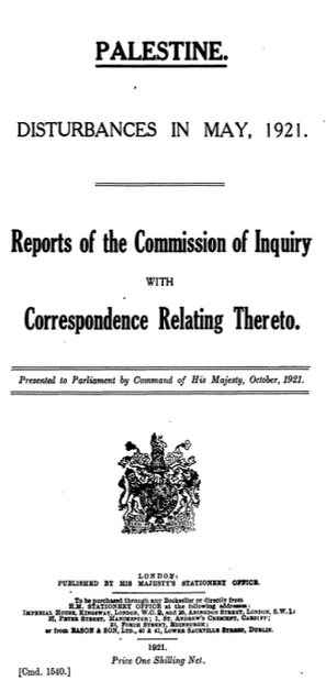 Haycraft Commission of Inquiry in Palestine Cmd 1540 Cover